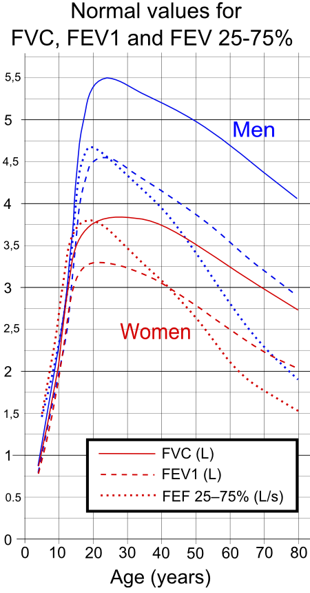 Normal values for Forced Vital Capacity (FVC), Forced Expiratory Volume in 1 Second (FEV1) and Forced Expiratory Flow 25–75% (FEF25–75%). Y-axis is expressed in Litres for FVC and FEV1, and in Litres/second for FEF25–75%. See main article: Wikipedia:Spirometry Reference Stanojevic S, Wade A, Stocks J, et al. (February 2008). "Reference ranges for spirometry across all ages: a new approach". Am. J. Respir. Crit. Care Med. 177 (3): 253–60. PMID 18006882. PMC: 2643211.